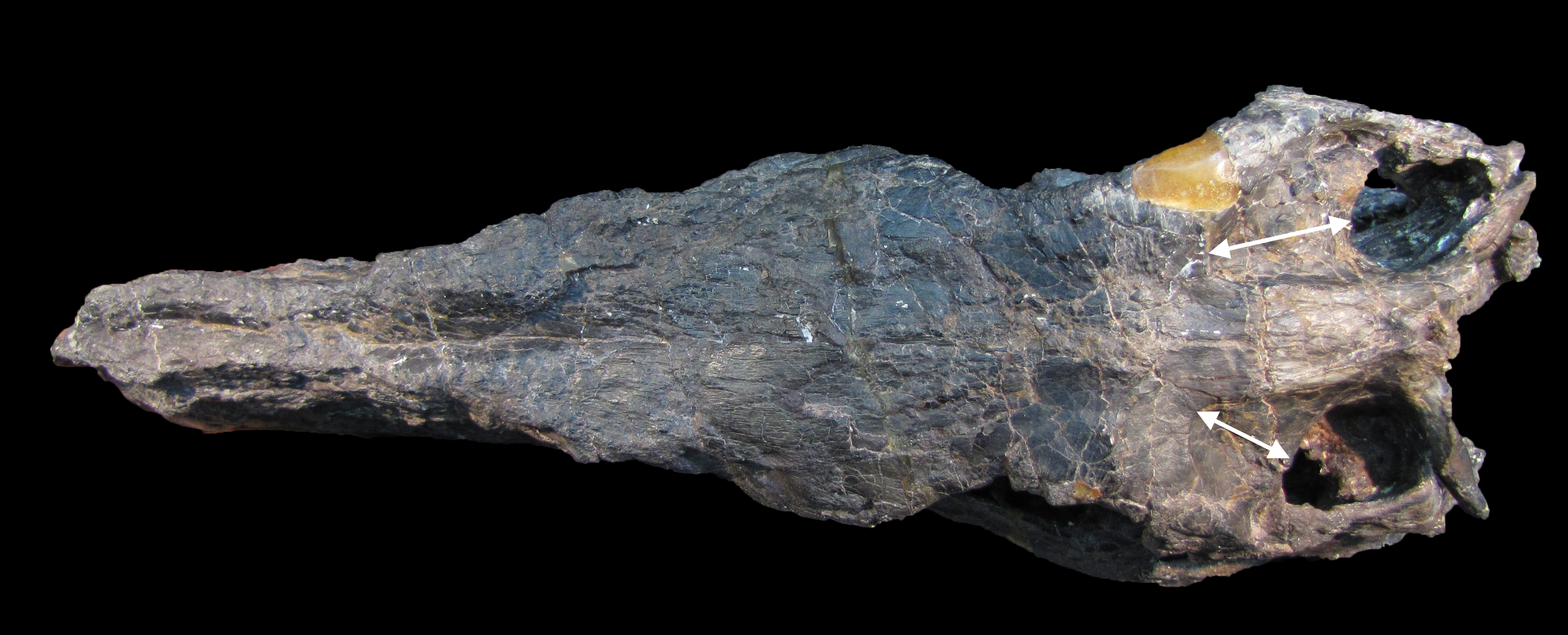 Herrerasaurus ischigualastensis skull (original) in dorsal view, showing the extension of the temporal musculature on the skull roof.